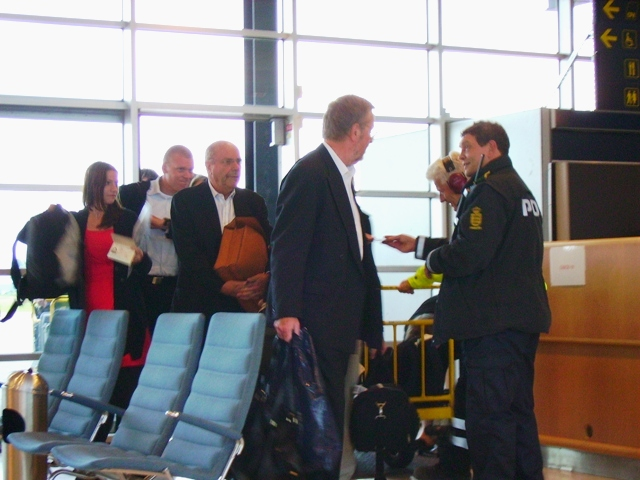 Foreign minister of Denmark Per Stig Møller (in front) and his civil servants delegation having their passports checked after arriving with an air force business jet at Roskilde Airport.